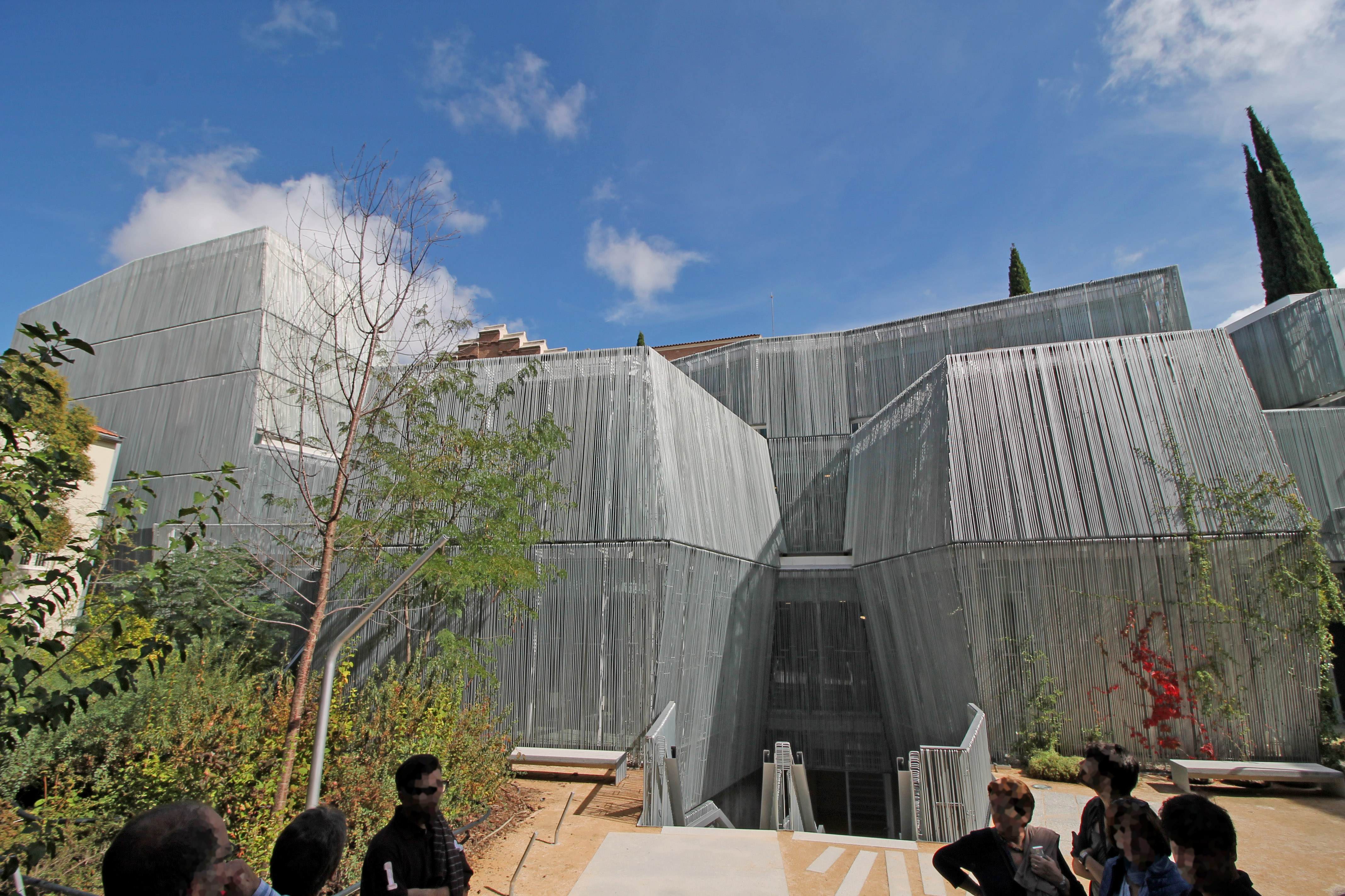 Façade of the home of Francisco Giner de los Ríos Foundation in Madrid (Spain).